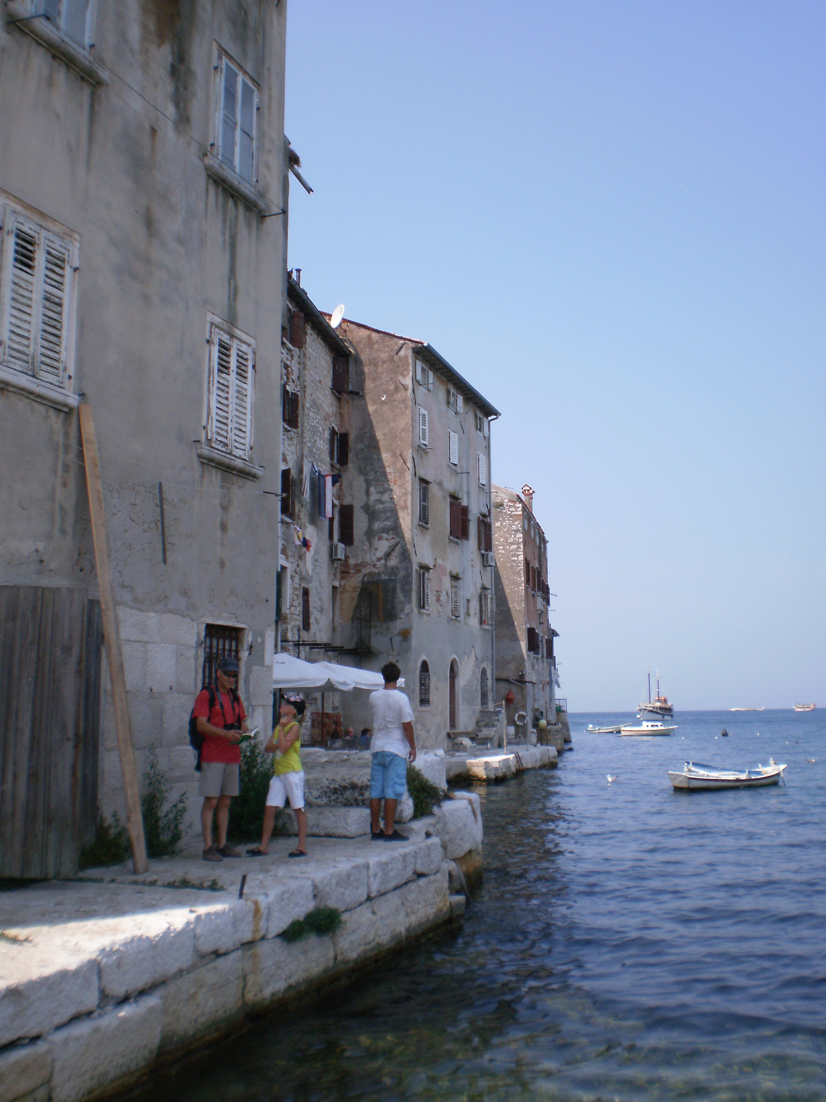 Rovinj by the sea